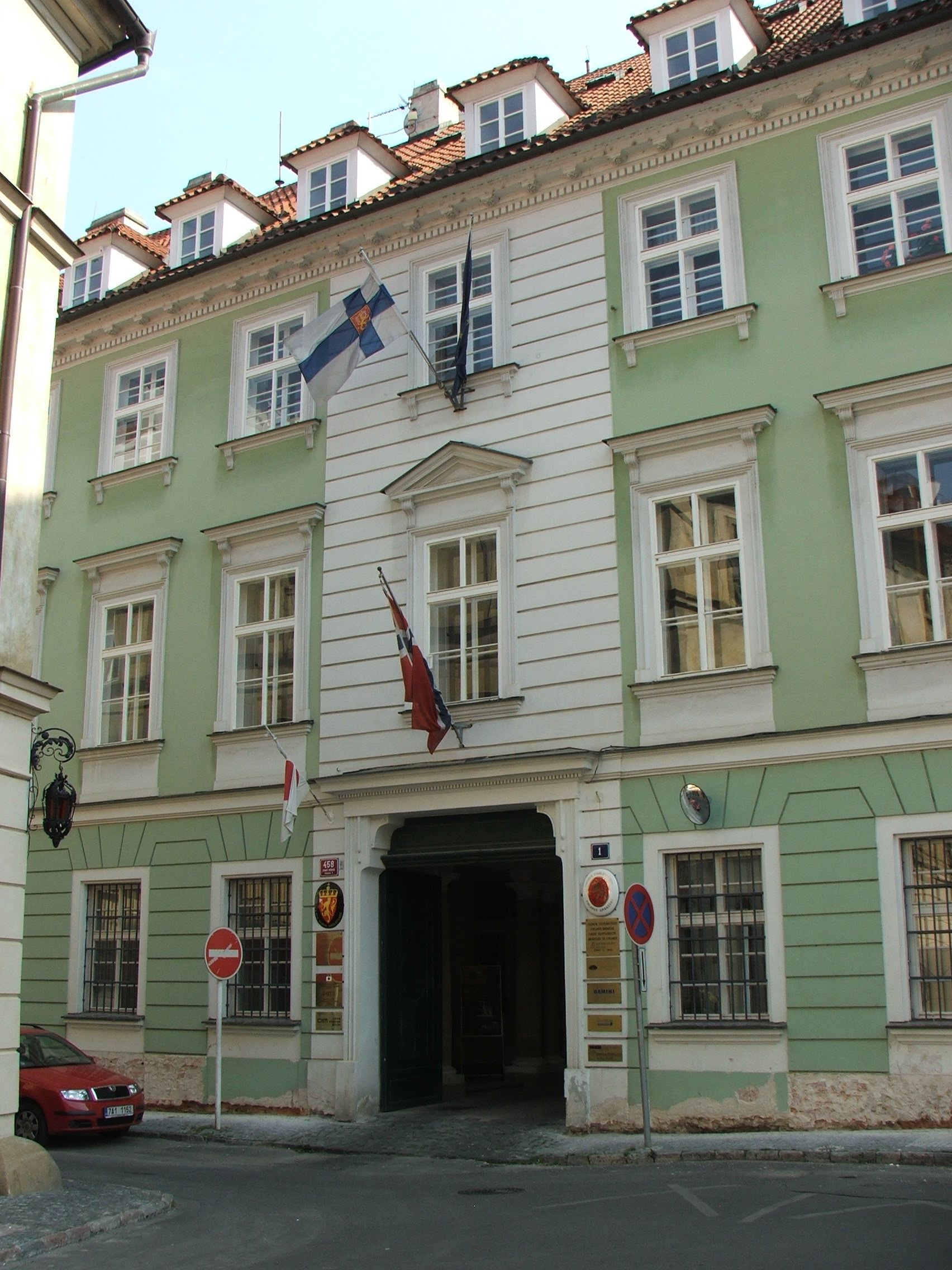 Embassies of Finland and Norway as well as cultural section of Japanese Embasssy are sharing this address - Hellichova No.1 Prague - Malá Strana, Czechia